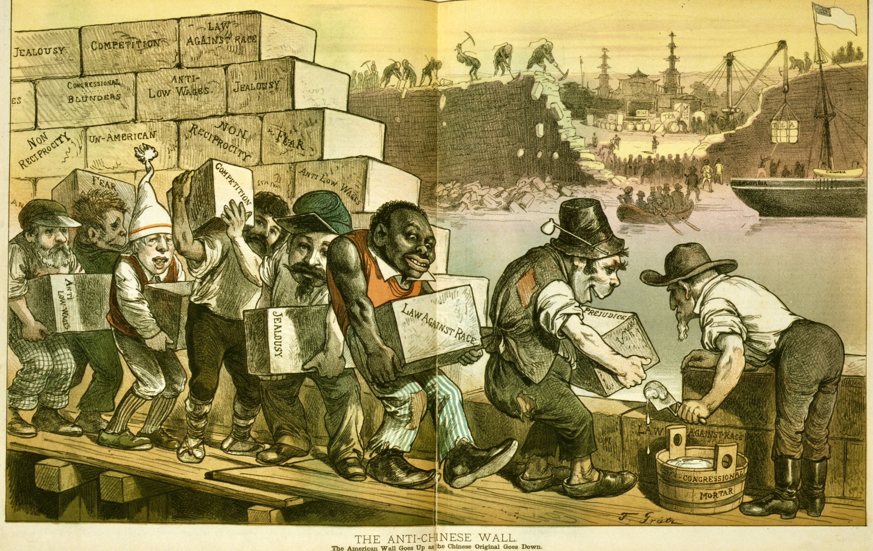 Title The anti-Chinese wall--The American wall goes up as the Chinese original goes down / F. Grätz. Summary A cartoon showing laborers, among whom are Irishmen, an African American, a Civil War veteran, Italian, Frenchman, and a Jew, building a wall against the Chinese. Congressional mortar is used to mount blocks of prejudice, non-reciprocity, law against race, fear, etc. Across the sea, a ship flying the American flag enters China, as the Chinese knock down their own wall and permit trade of such goods as rice, tea, and silk.